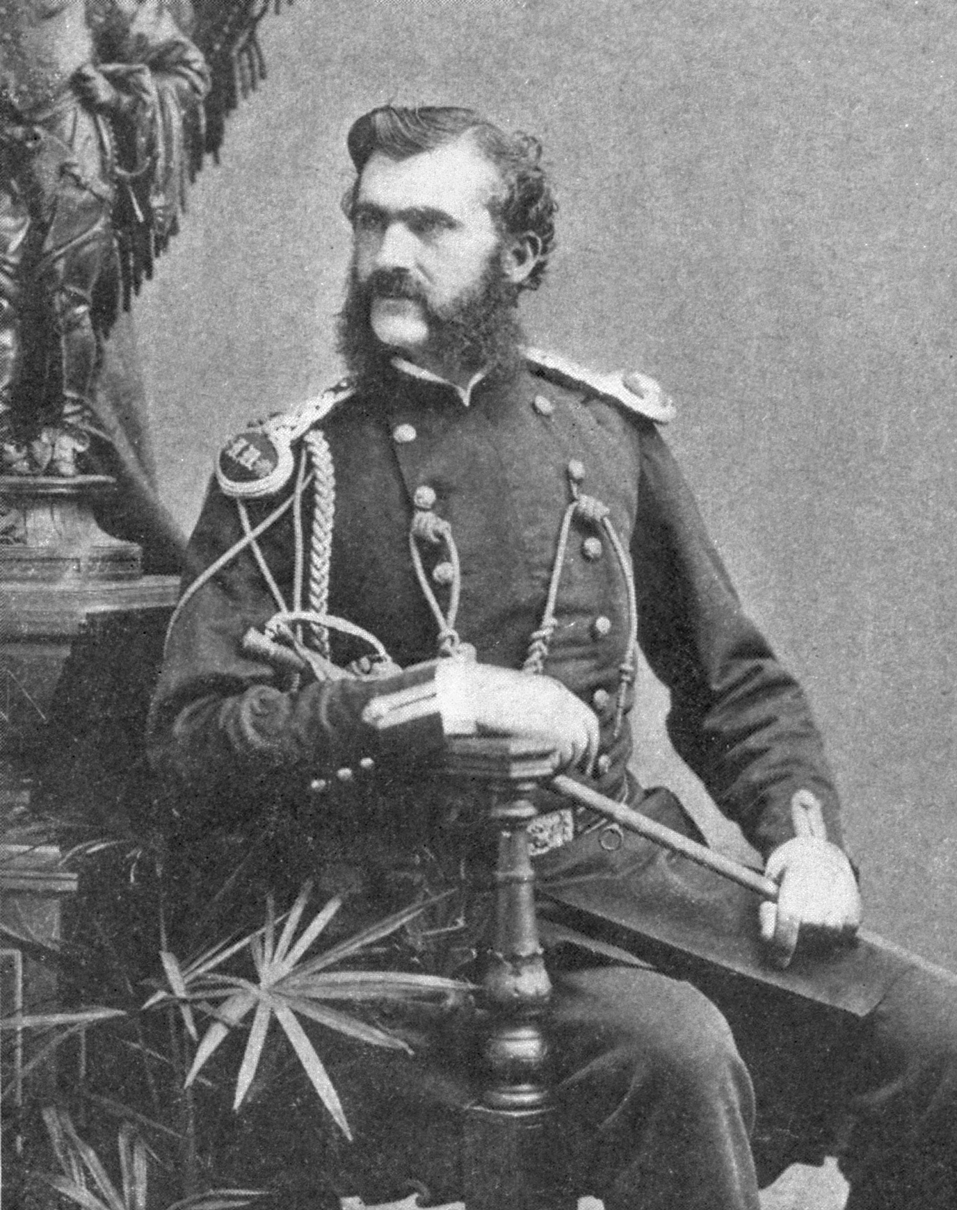 Photo of Colonel Richard Henry Savage, from the collection of Charles Warren Stoddard, from a story, "In Old Bohemia", by Stoddard printed in the Pacific Monthly in 1907.